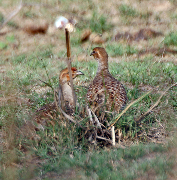 Grey Francolin (Francolinus pondicerianus) at Keoladeo National Park, Rajasthan, India.